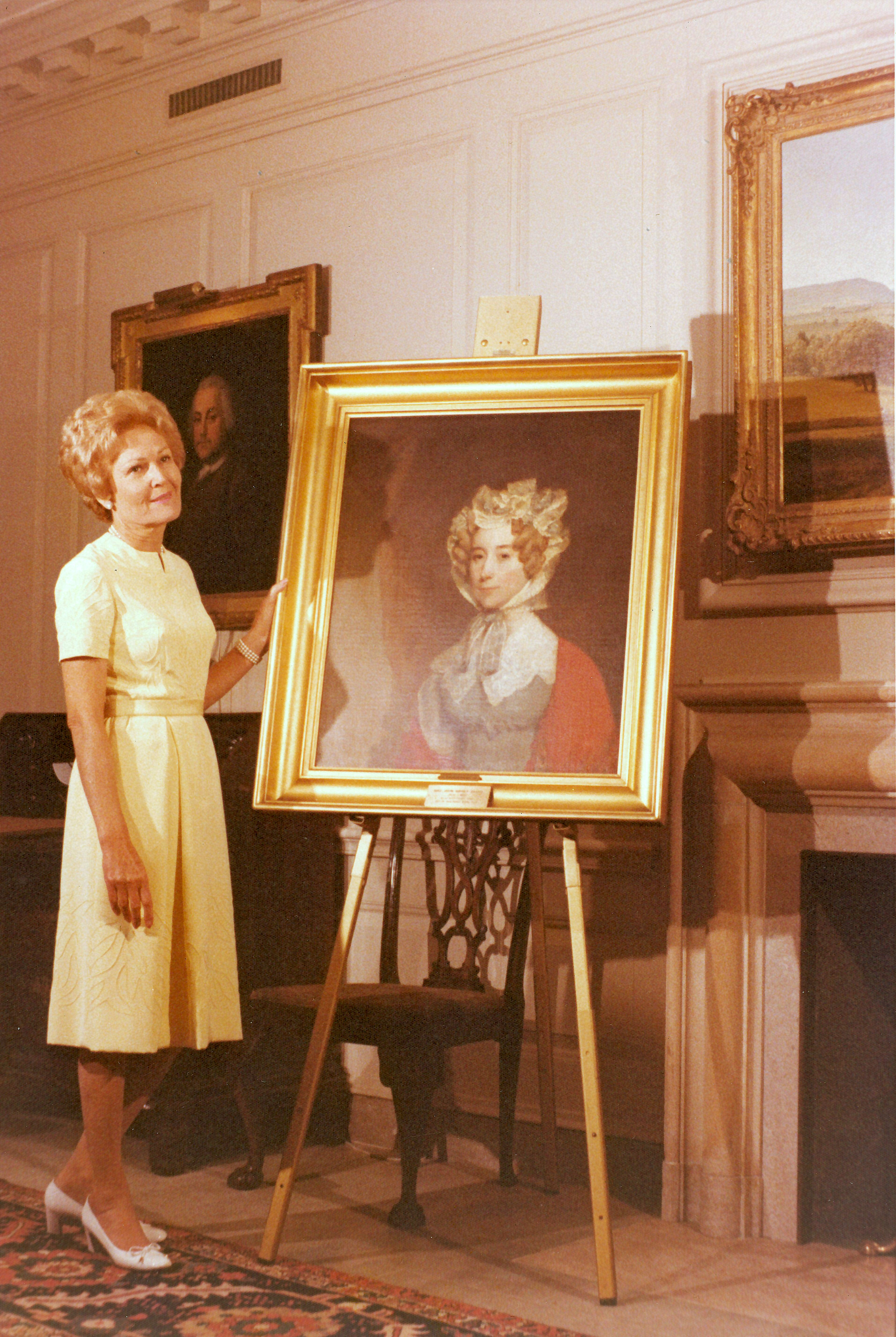 First Lady Pat Nixon with a portrait of First Lady Louisa Adams that she acquired for the White House. WHPO C6394-04a